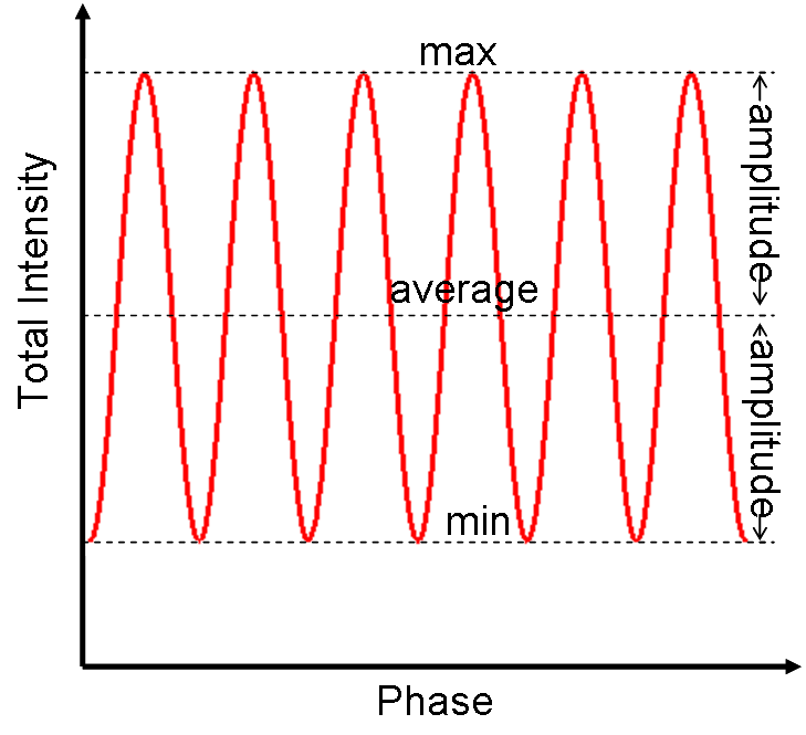 Interferometric visibility in a Mach-Zehnder, Michelson or Sagnac interferometer.